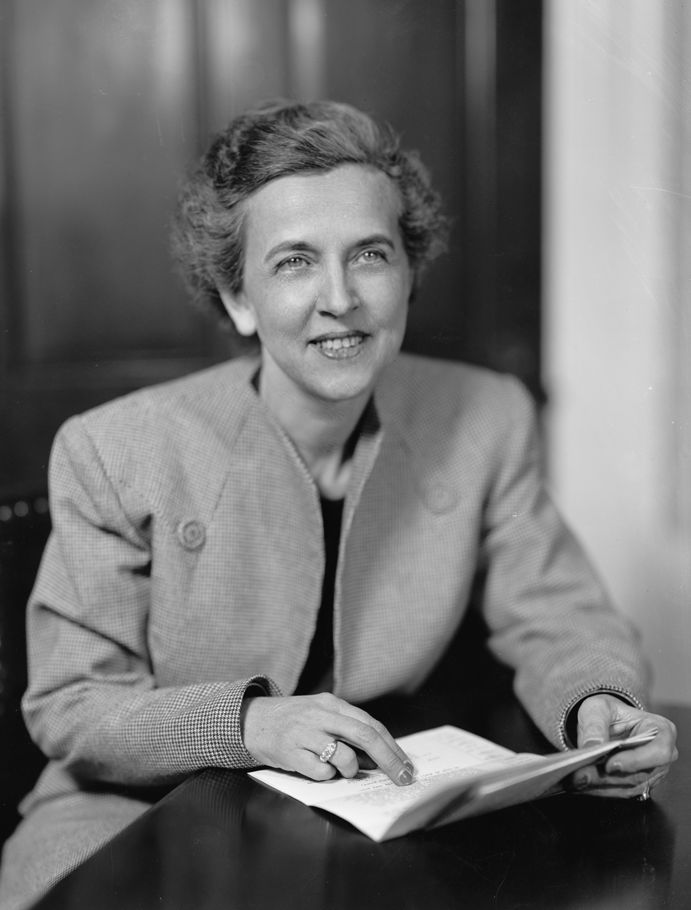 Helen Douglas Mankin, US Representative from Georgia